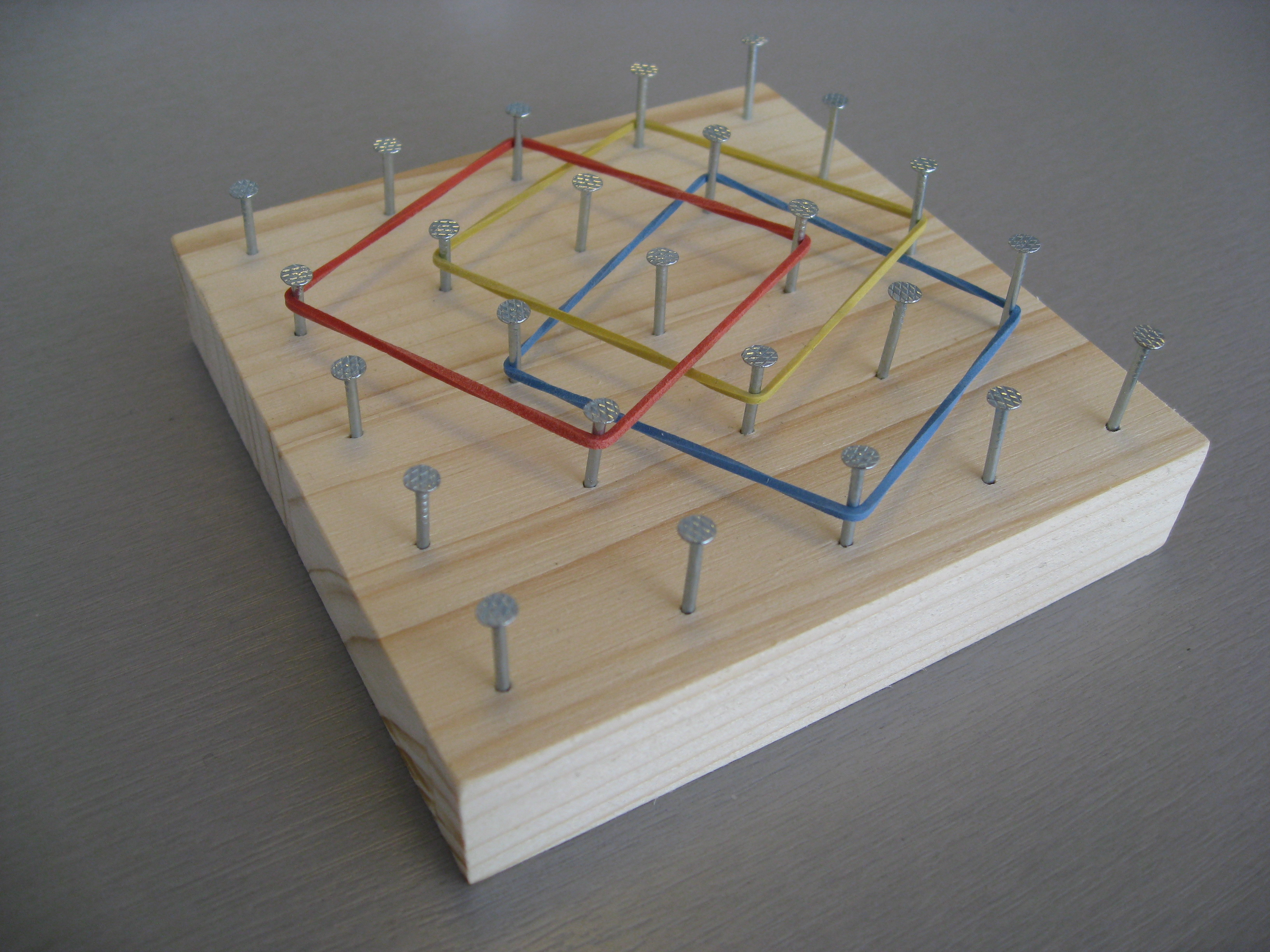 Selfmade (5×5)-geoboard with three colored rubber bands forming squares